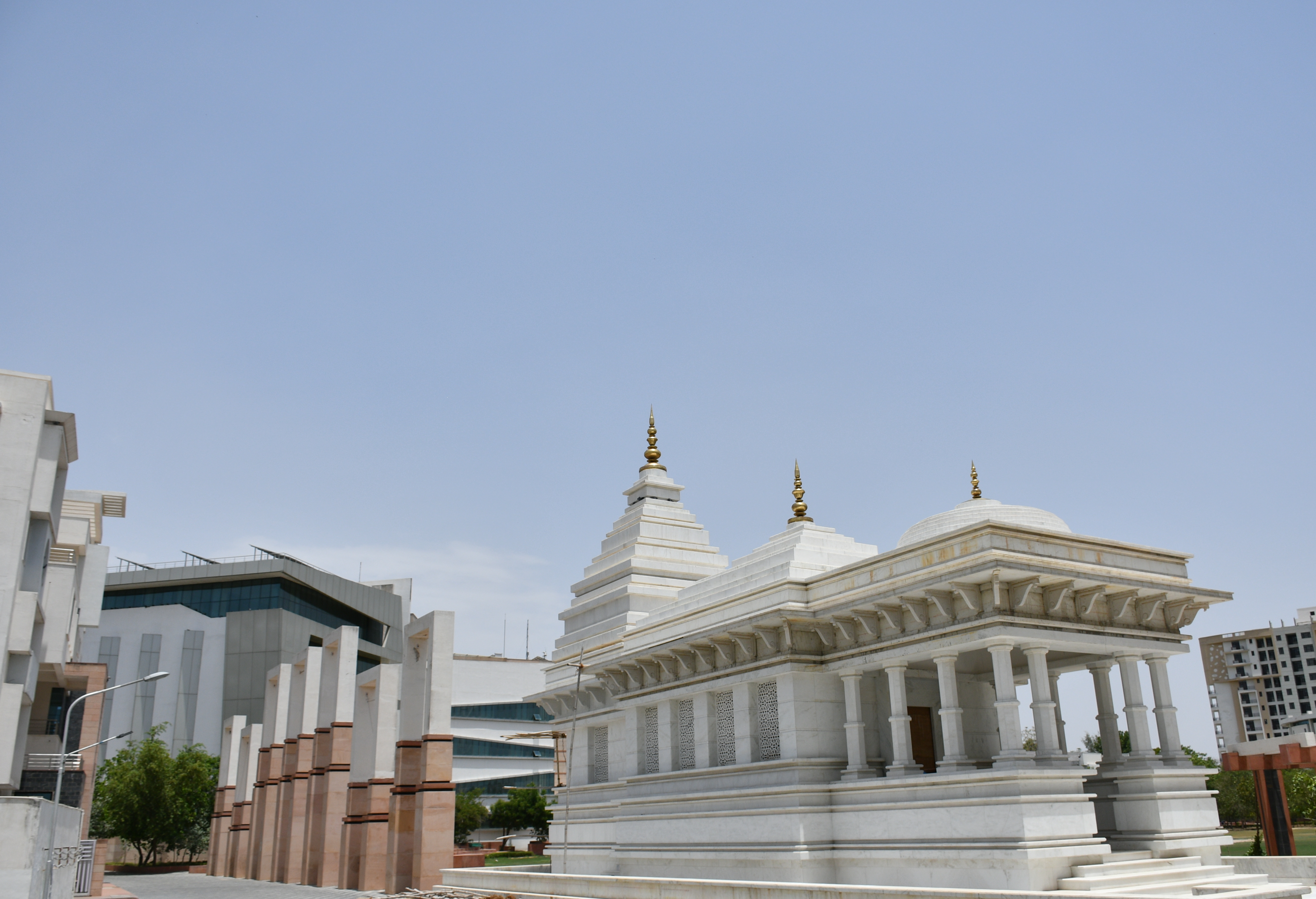 Temple at Gyan Vihar University